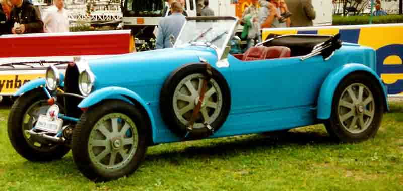 Bugatti Type 43 Grand Sport 1928